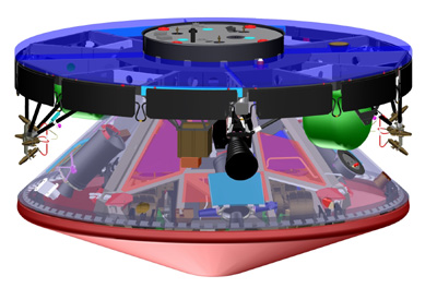 Transparent rendering of a Mars Exploration Rover incapsulated and attached to its cruise stage.